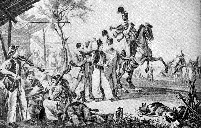 coloured lithograph from the beginning of the nineteenth century verbunkos recruiting ceremony